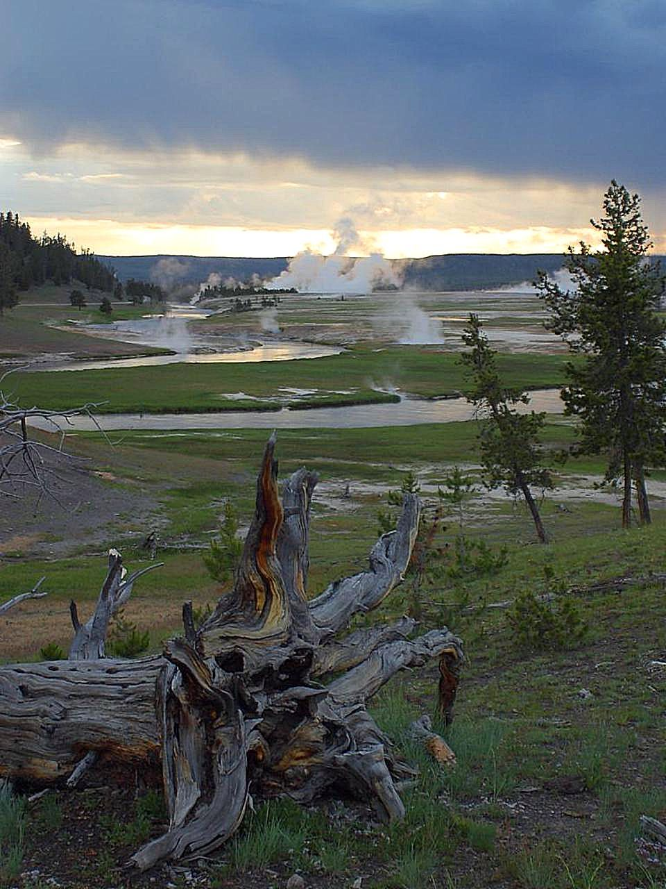 Image title: Yellowstone sunsets Image from Public domain images website